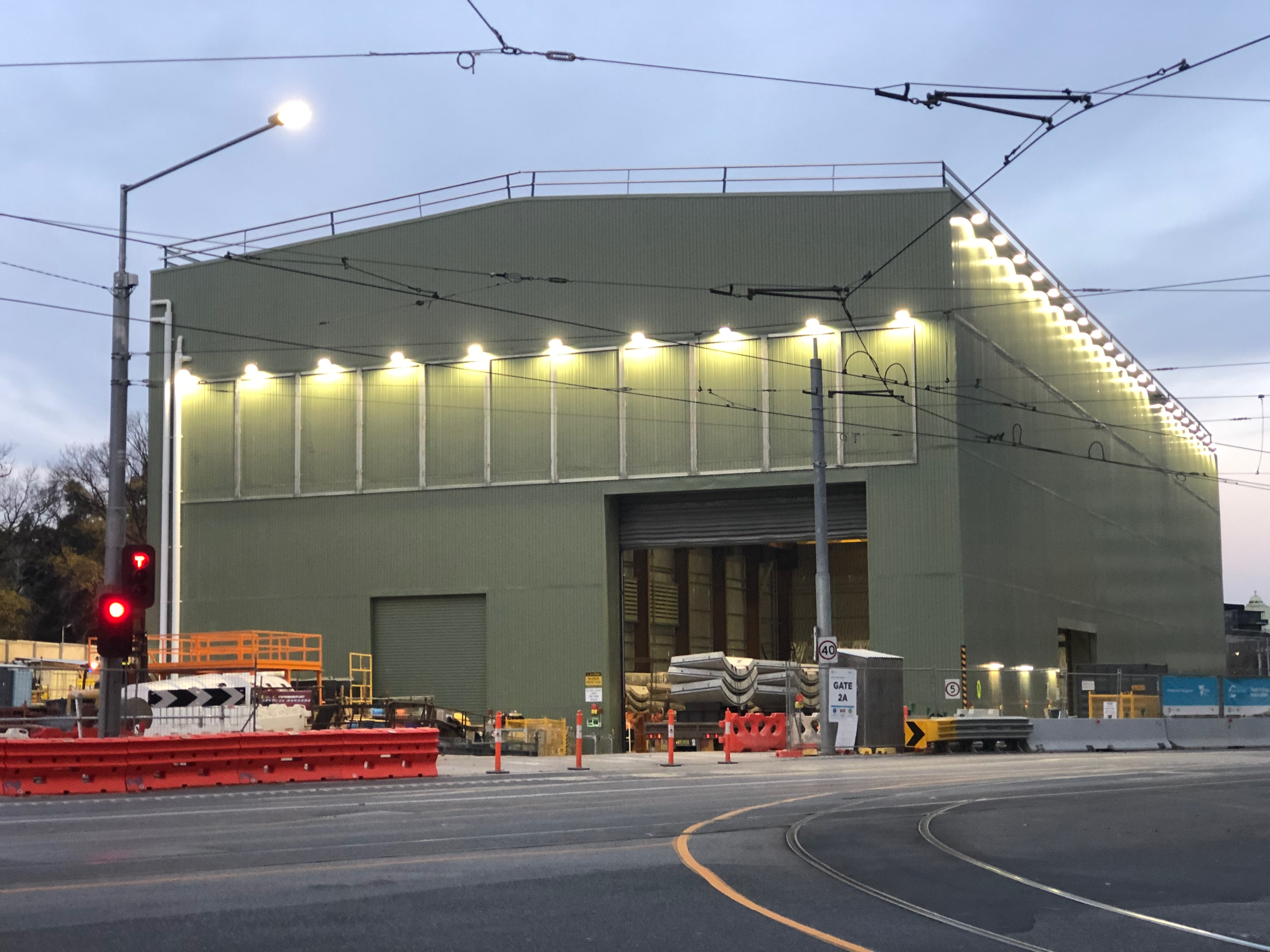 Acoustic shed to lower excavation noise at the site of Anzac Station on the Melbourne Metro Tunnel in June 2020.